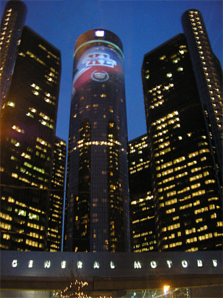 The Renaissance Center towers in Detroit, taken on February 1, 2006. Note the Superbowl XL banner, decorated for the game that is scheduled to be played four days later at Ford Field, about a mile away from the center.